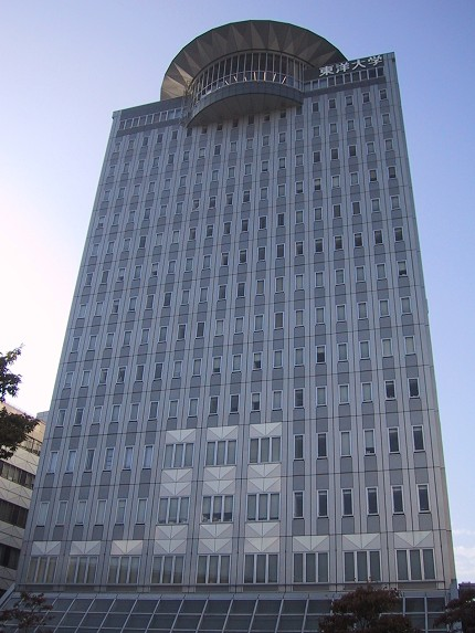 Toyo University Hakusan Campus No.2 Hall(東洋大学白山キャンパス2号館（図書館・研究棟）)